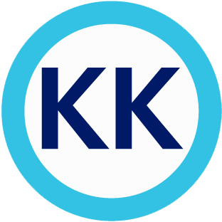 Station number's prefix of Keikyū Line